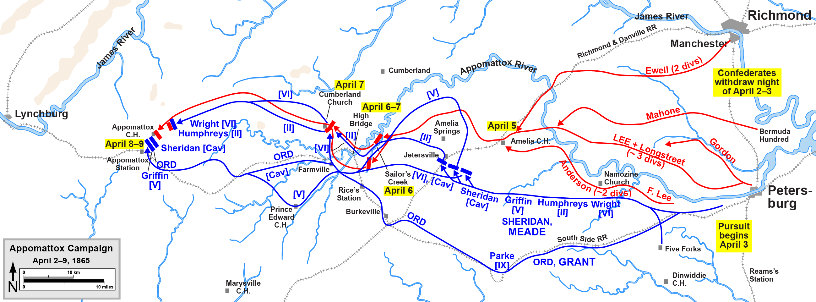 Overview map of the Appomattox Campaign of the American Civil War, drawn in Adobe Illustrator CS5 by Hal Jespersen. Graphic source file is available at